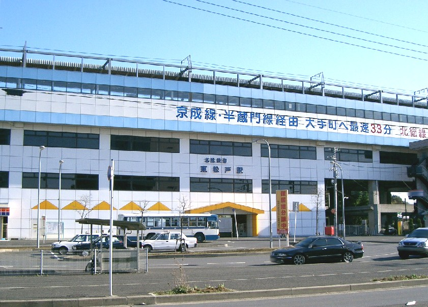 Higashi-Matsudo Station on the Hokuso Line